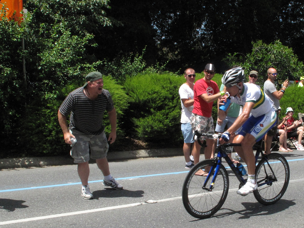 The crowds in Stirling cheered home William Clarke who won Stage 2 of the 2012 Tour Down Under by more than one minute. Clarke was in a two man breakaway from the start and rode solo for the last 90km.